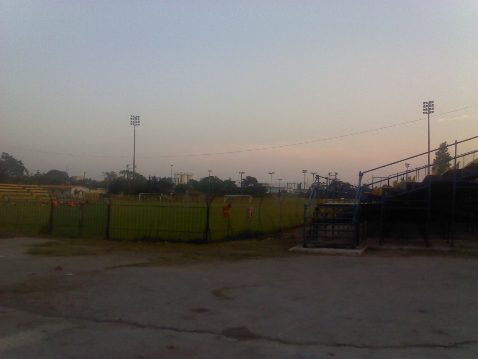 Terrain Fostiras Tavros